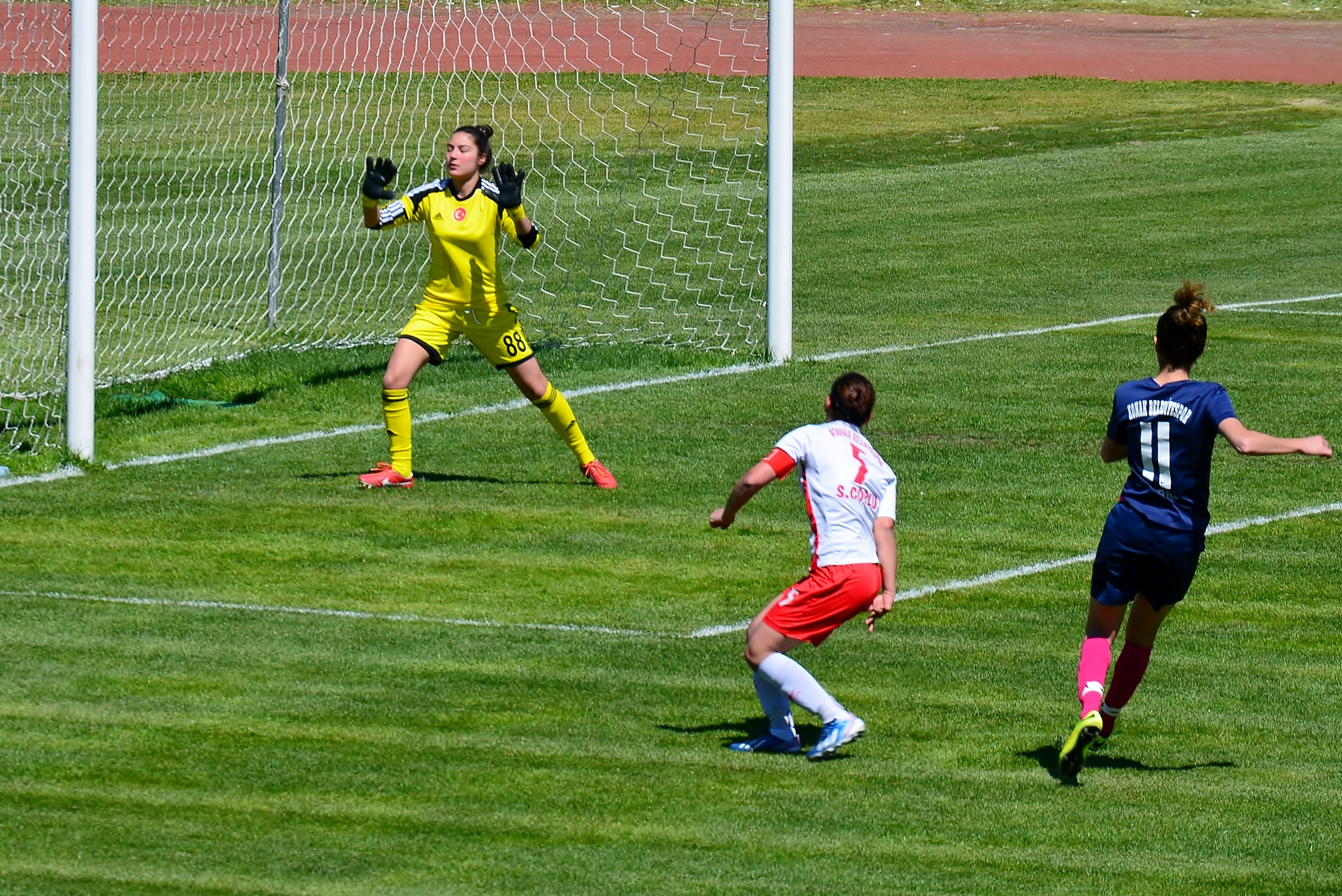 Bilgesu Aydın playing for Ataşehir Belediyespor in the 2014-15 season